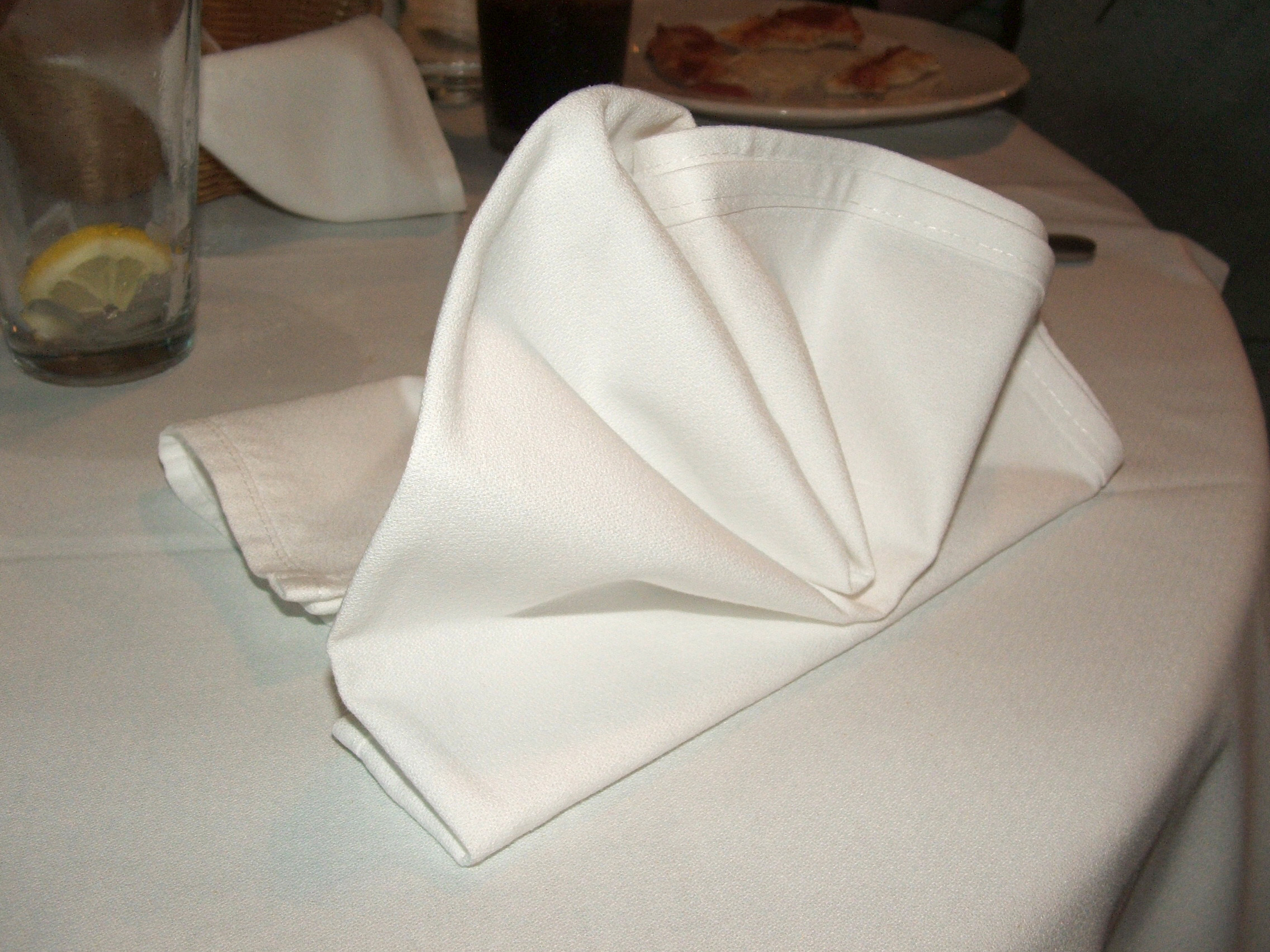 Taken from inside Abalonetti Seafood Trattoria, Fisherman's Wharf, Monterey, California